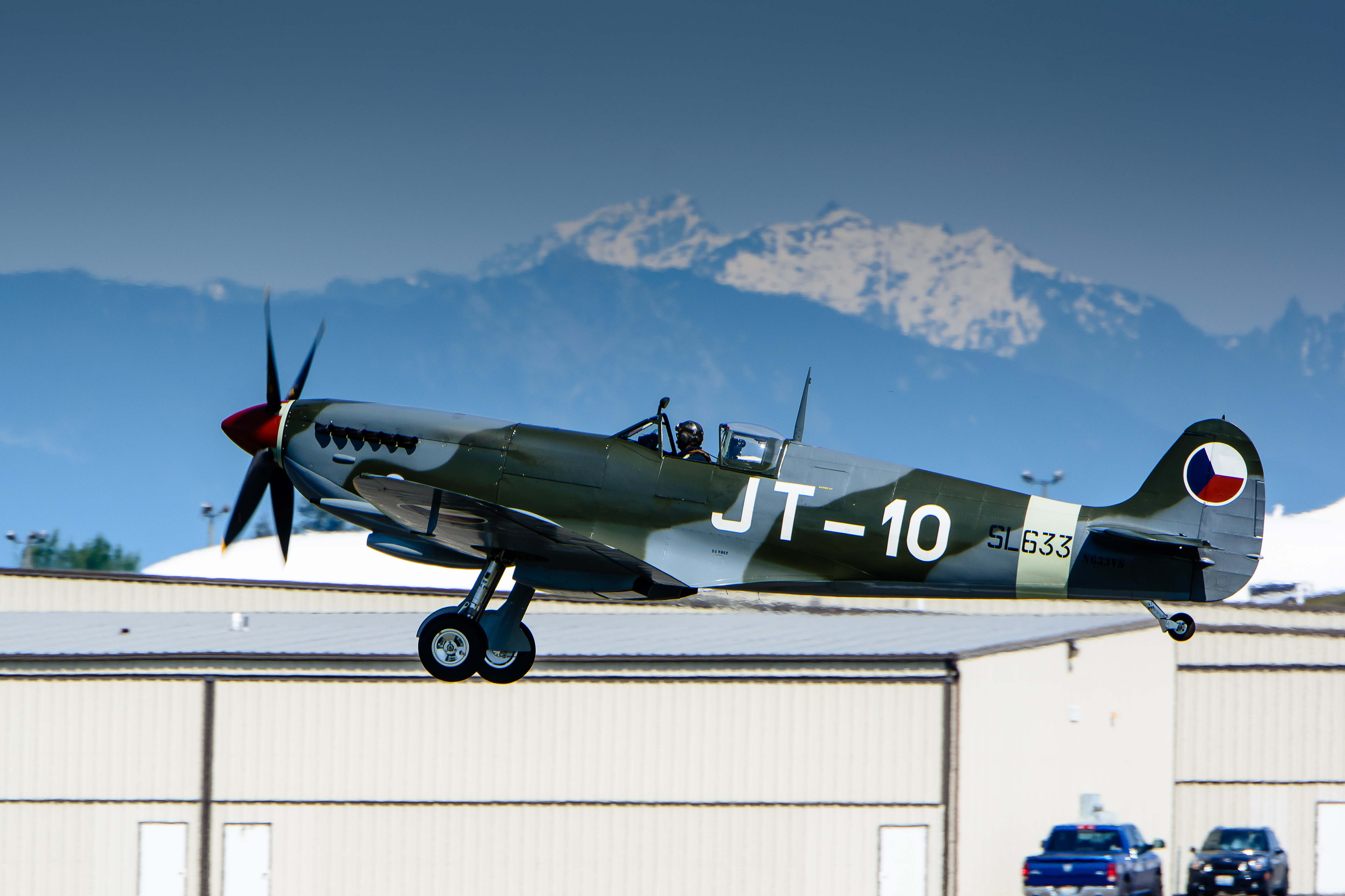 The Historic Flight Foundation's Supermarine Spitfire LF Mark IXe over Paine Field.